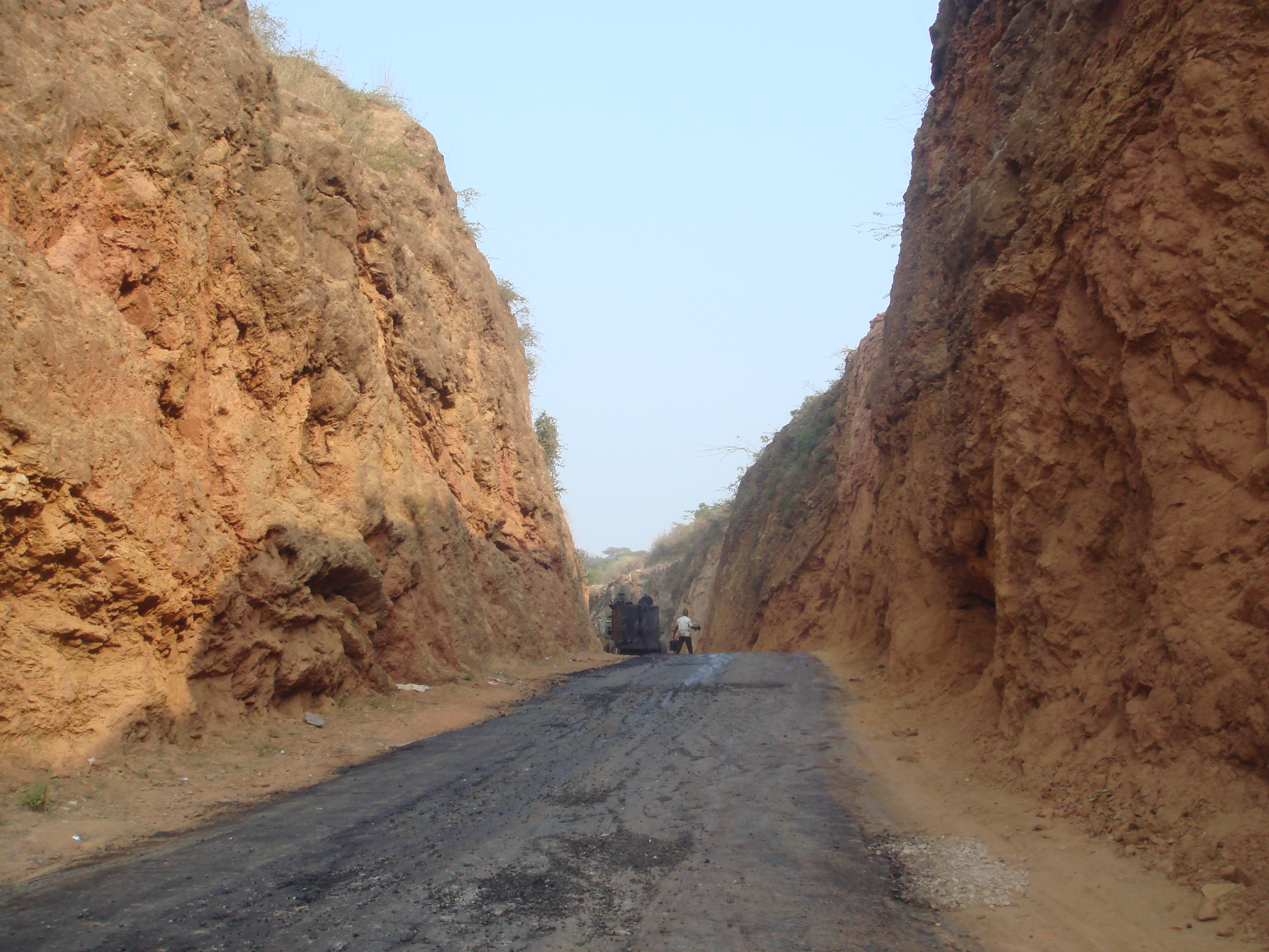 Haldighati